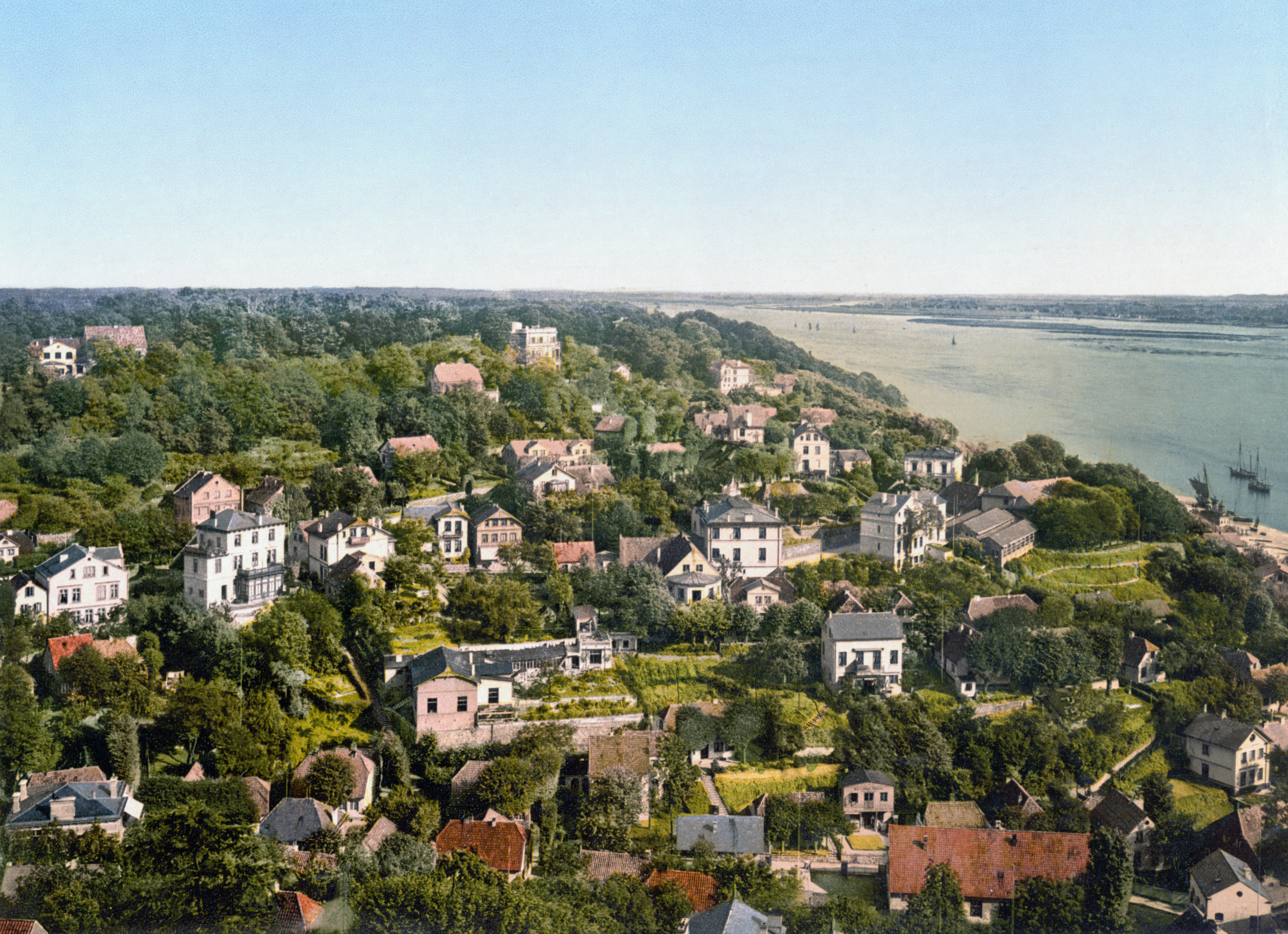 Blankenese, Hamburg, Germany, in 1890. Hamburg suburb of Blankenese on the lower Elbe River (image has been slightly rotated from the original)